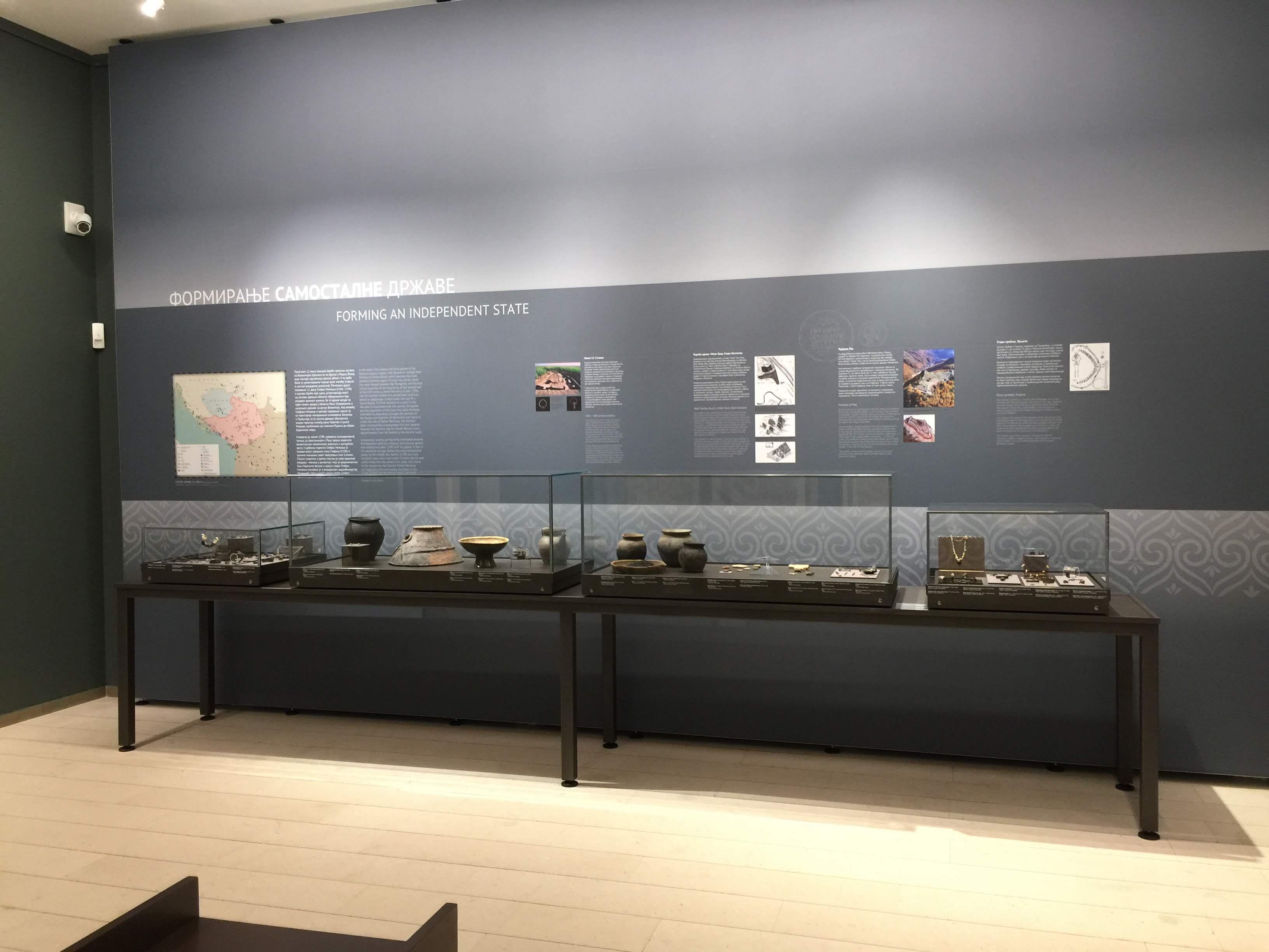 National Museum of Serbia building interior